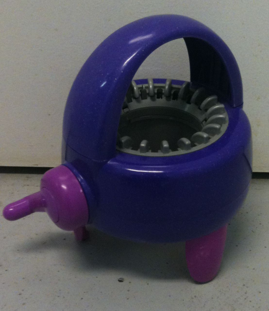 A modern day Knitting Nancy with a crank